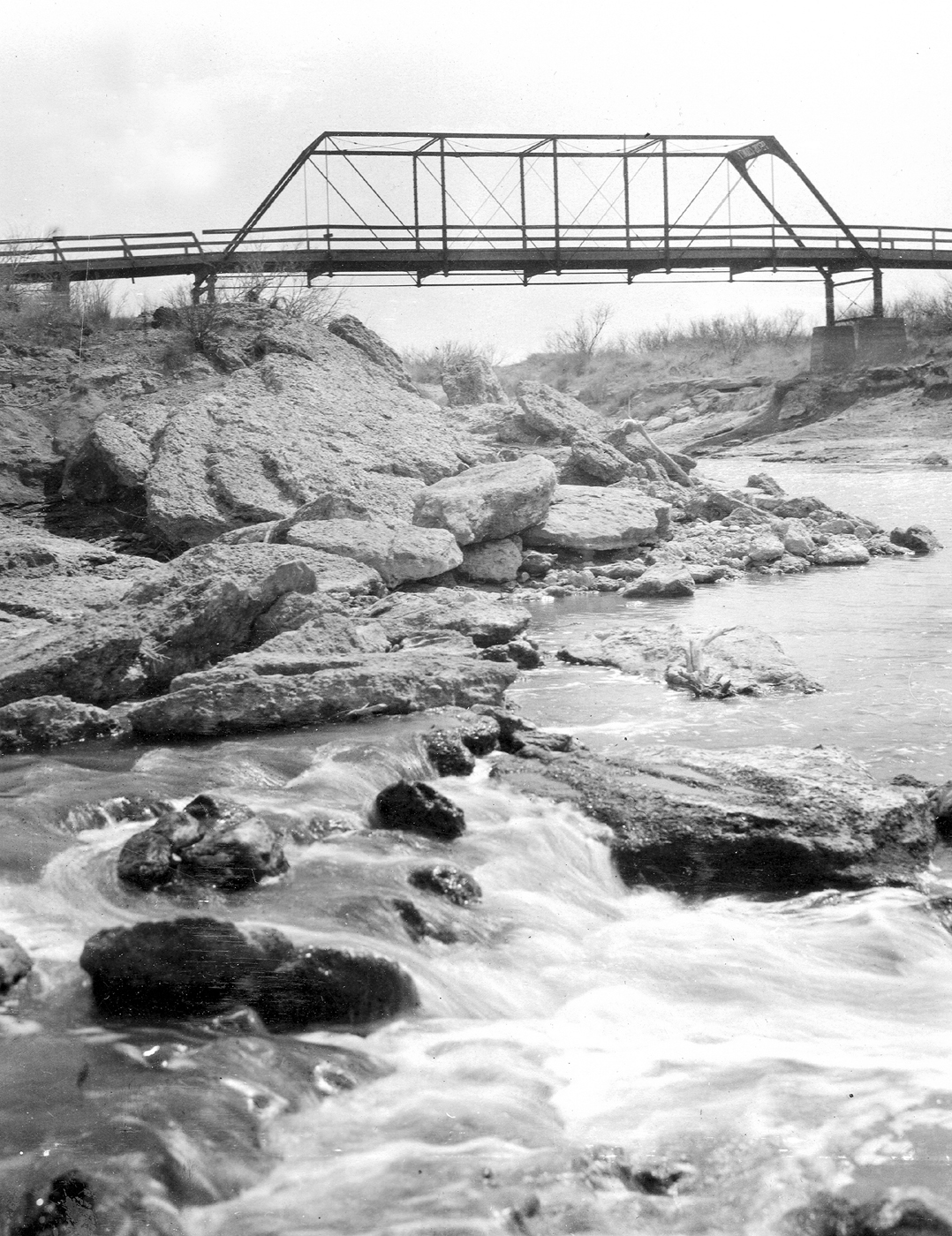 Bridge across Pecos River near Grandfalls, Texas outcrop of Jurassic Sediments in river. Ward County, Texas. 1910.